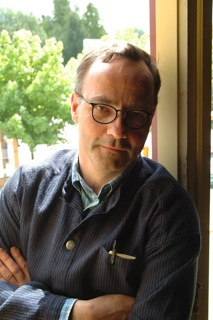 Sjur Harby